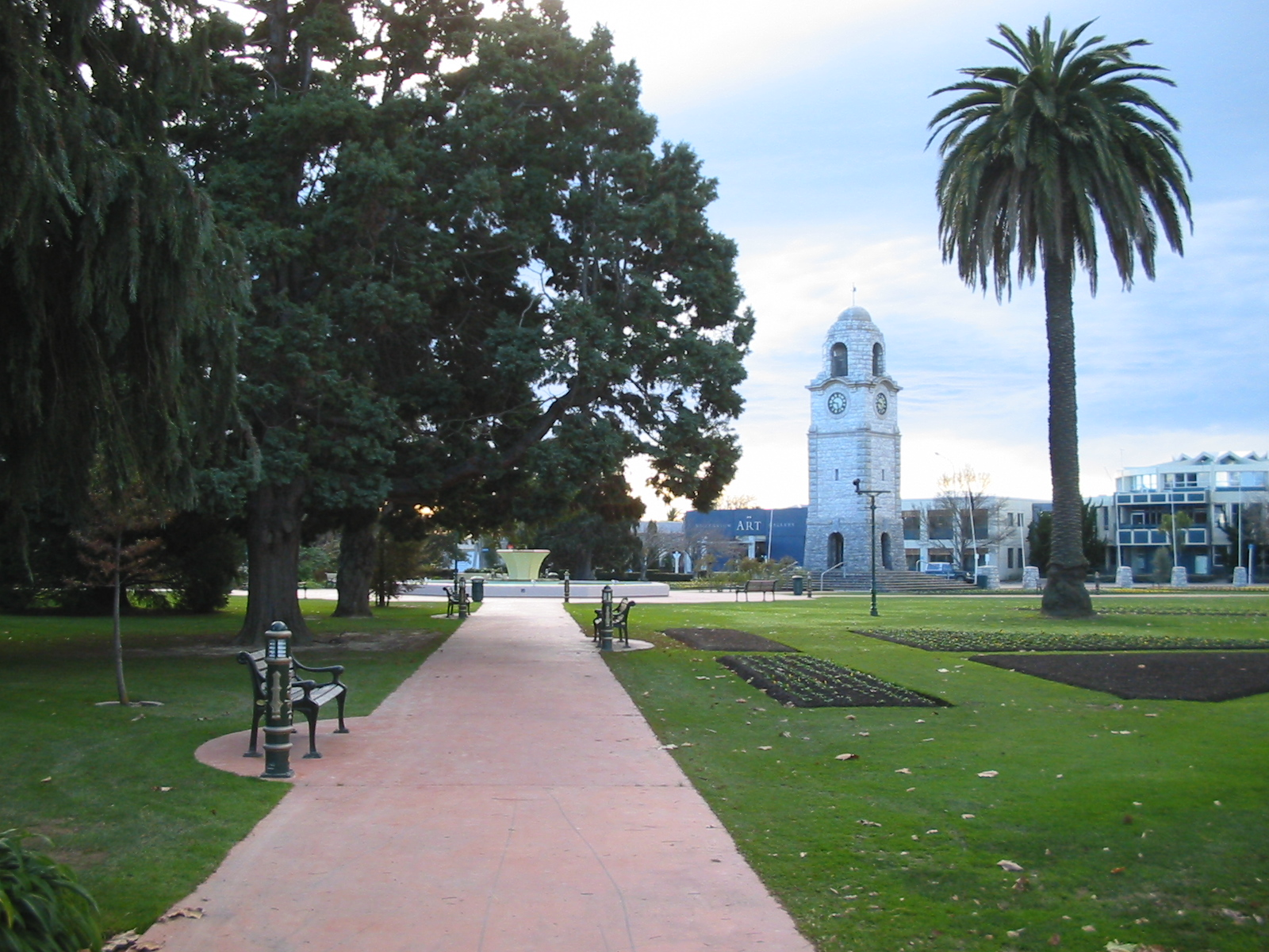 Blenheim, New Zealand. The War Memorial and Clock Tower is a listed by NZHPT as a Category I heritage structure; registration number 243.